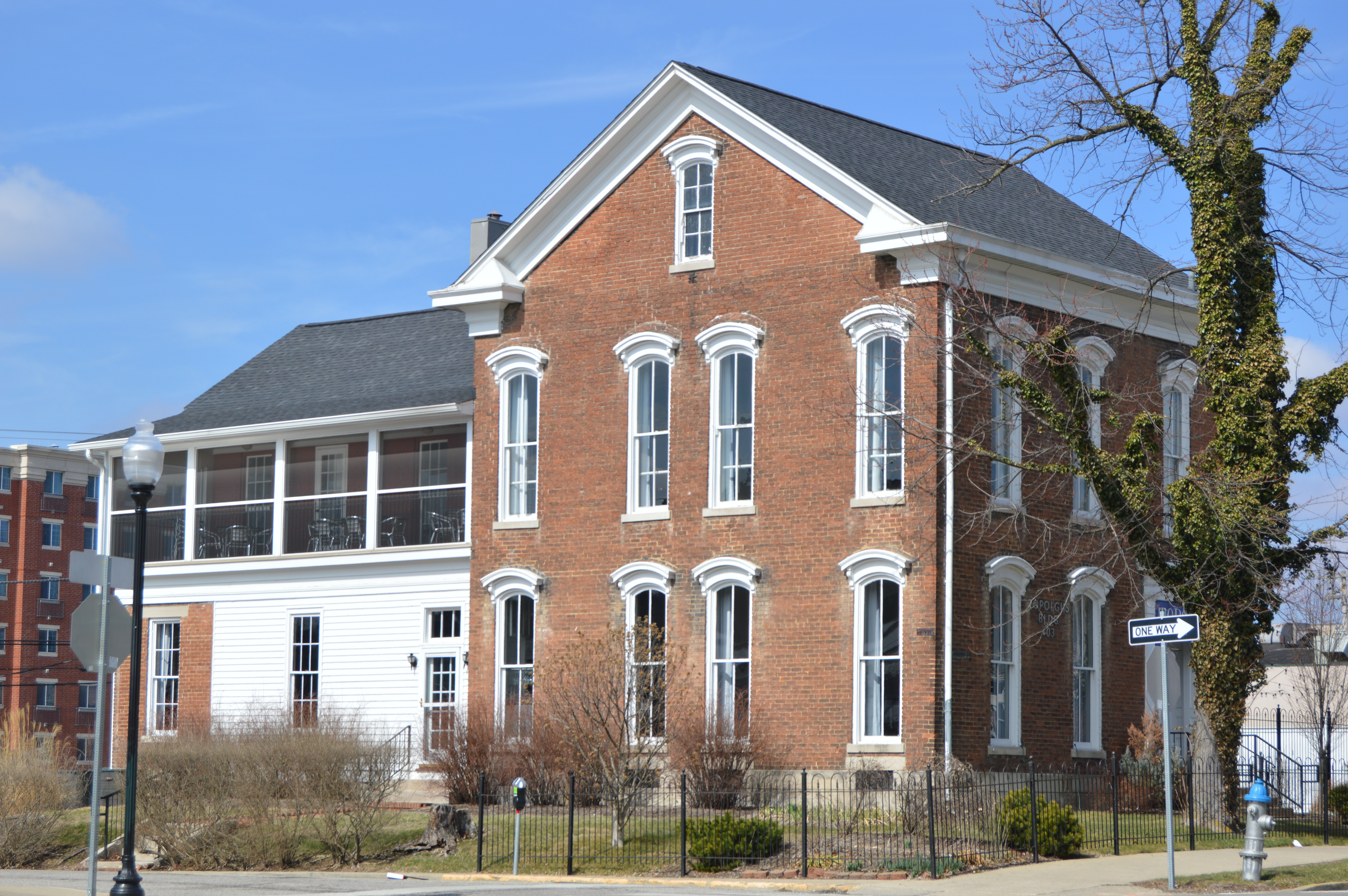 Front and southern side of the Topolgus Building (the Millen-Chase-McCalla House), located at 403 N. Walnut Street in Bloomington, Indiana, United States. Built in 1875, it is listed on the National Register of Historic Places.